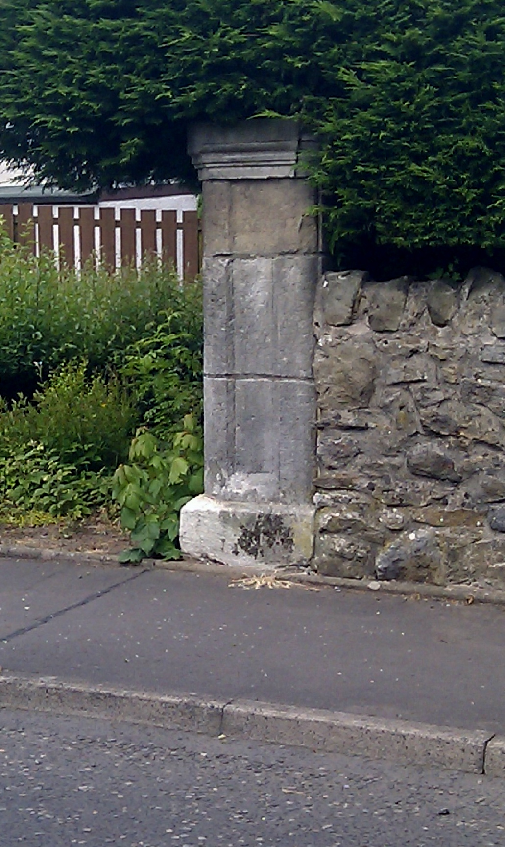 A gatepier at the old Morishill Estate, Beith, North Ayrshire, Scotland.